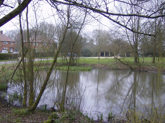 Pond at Broadmere The hamlet of Broadmere, just off a B-road, consists of a few houses, a garage block (beyond pond), a telephone box and this pond, all featured on the map.